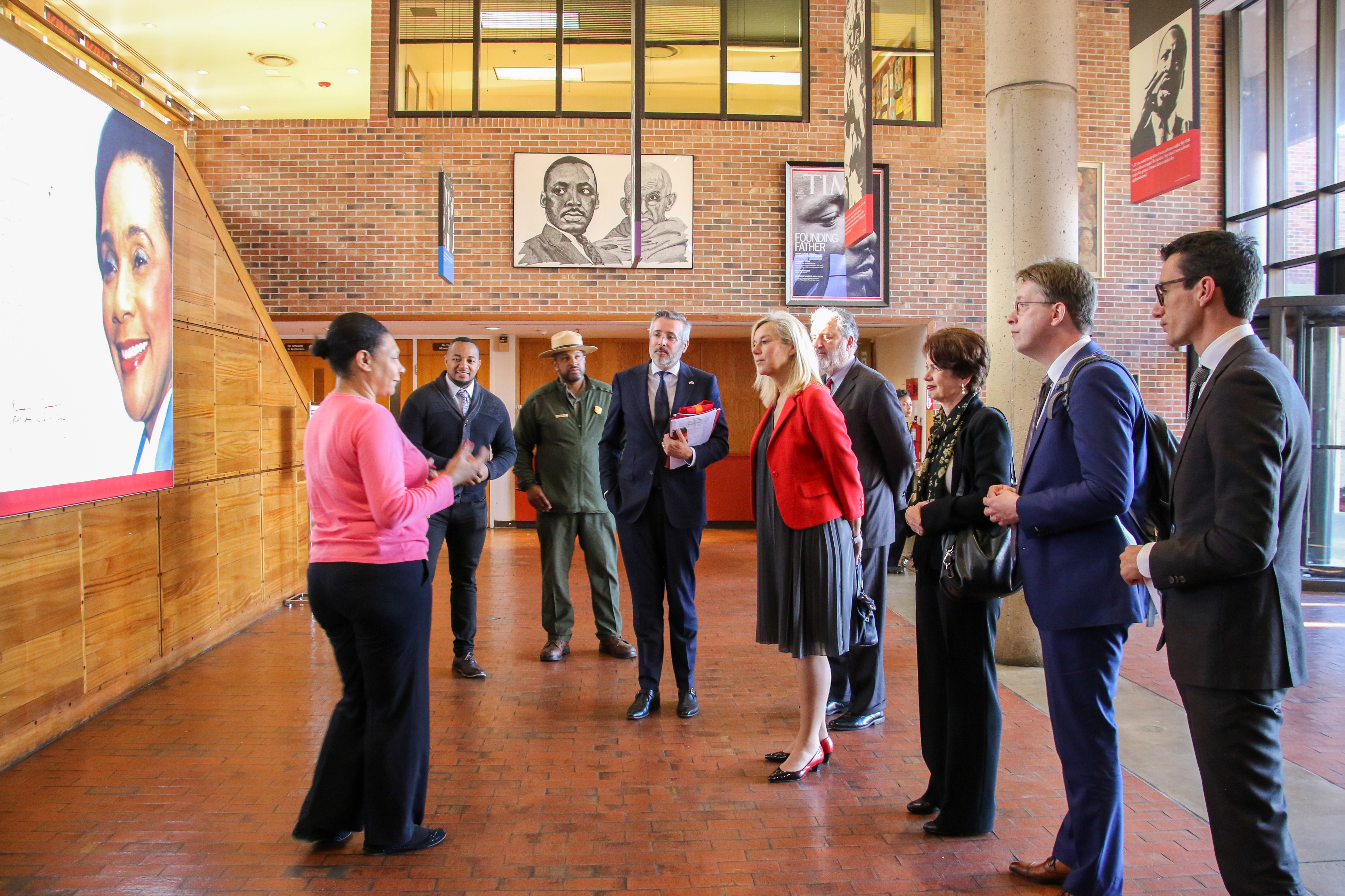 NLinAtlanta - Visit Minister Sigrid Kaag to Dr. Martin Luther King Jr. Center, The King Center, in Atlanta, Georgia, March 27, 2019 - (c) Celine Admiraal, CAPhotoVision.